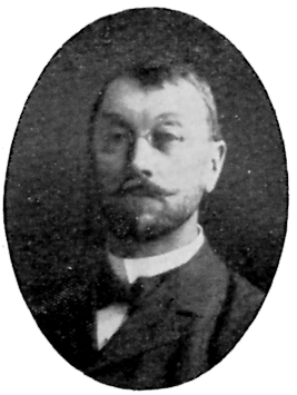 Image scanned from the book "Svenskt Porträttgalleri XX - Arkitekter, Bildhuggare, Målare m.fl. " ("Swedish Portrait Gallery XX - Architects, Sculptors, Painters, ") published 1901